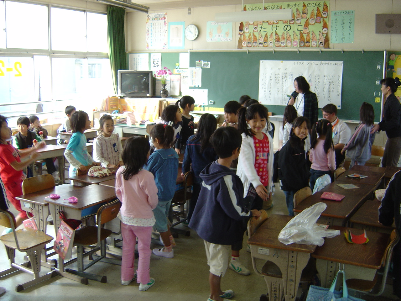 A typical classroom in a Japanese elementary school.